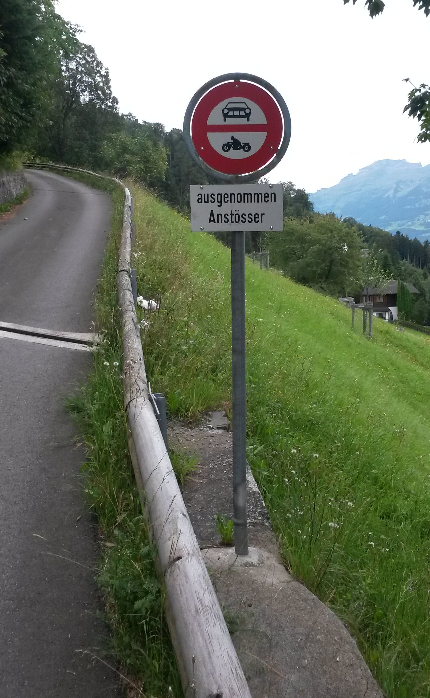 Road sign with additional panel "Anstösser" in Planken (Principality of Liechtenstein).